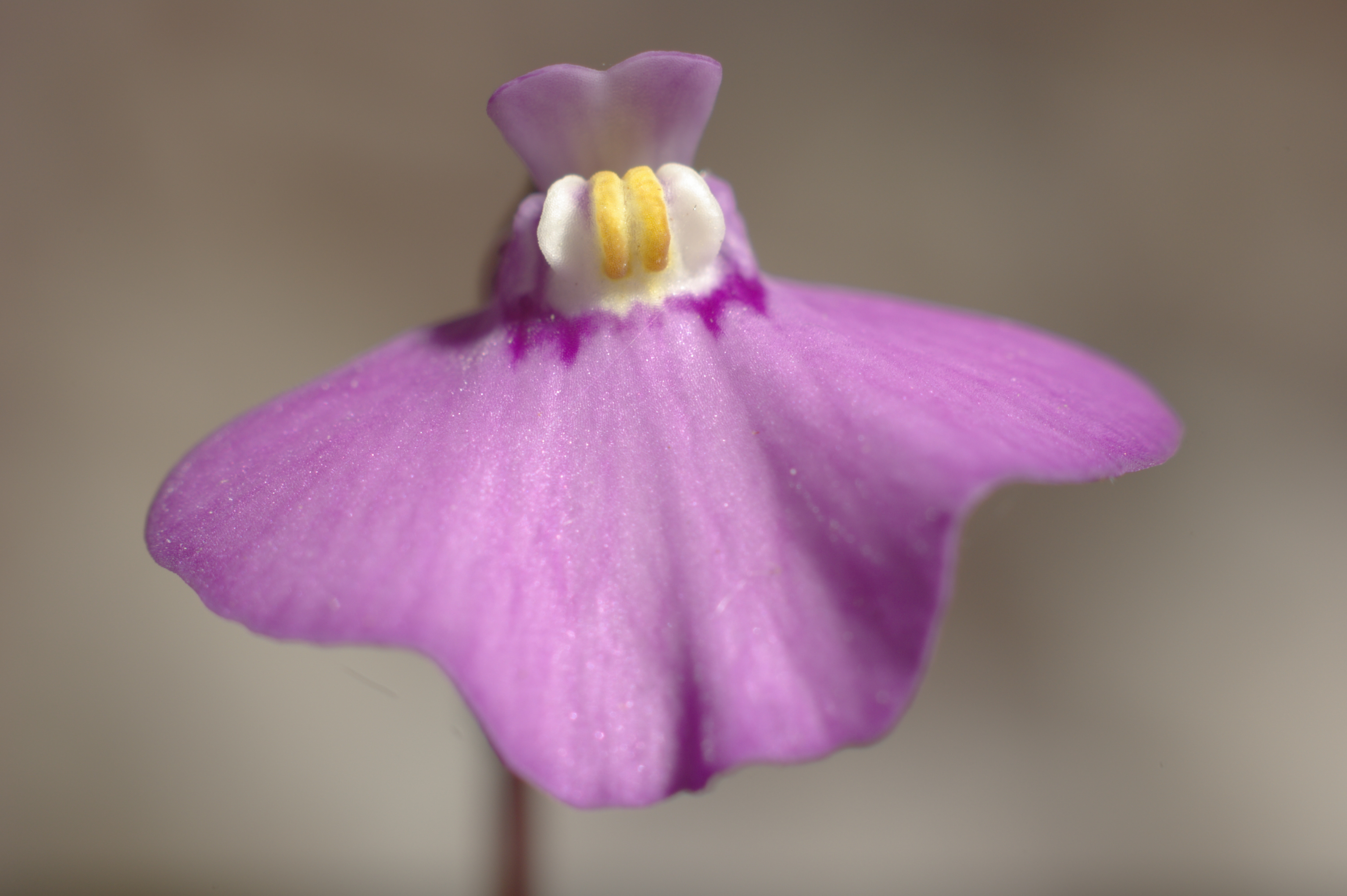 Flower of Utricularia uniflora, growing by the roadside at Teds Beach, near Lake Pedder, Tasmania.